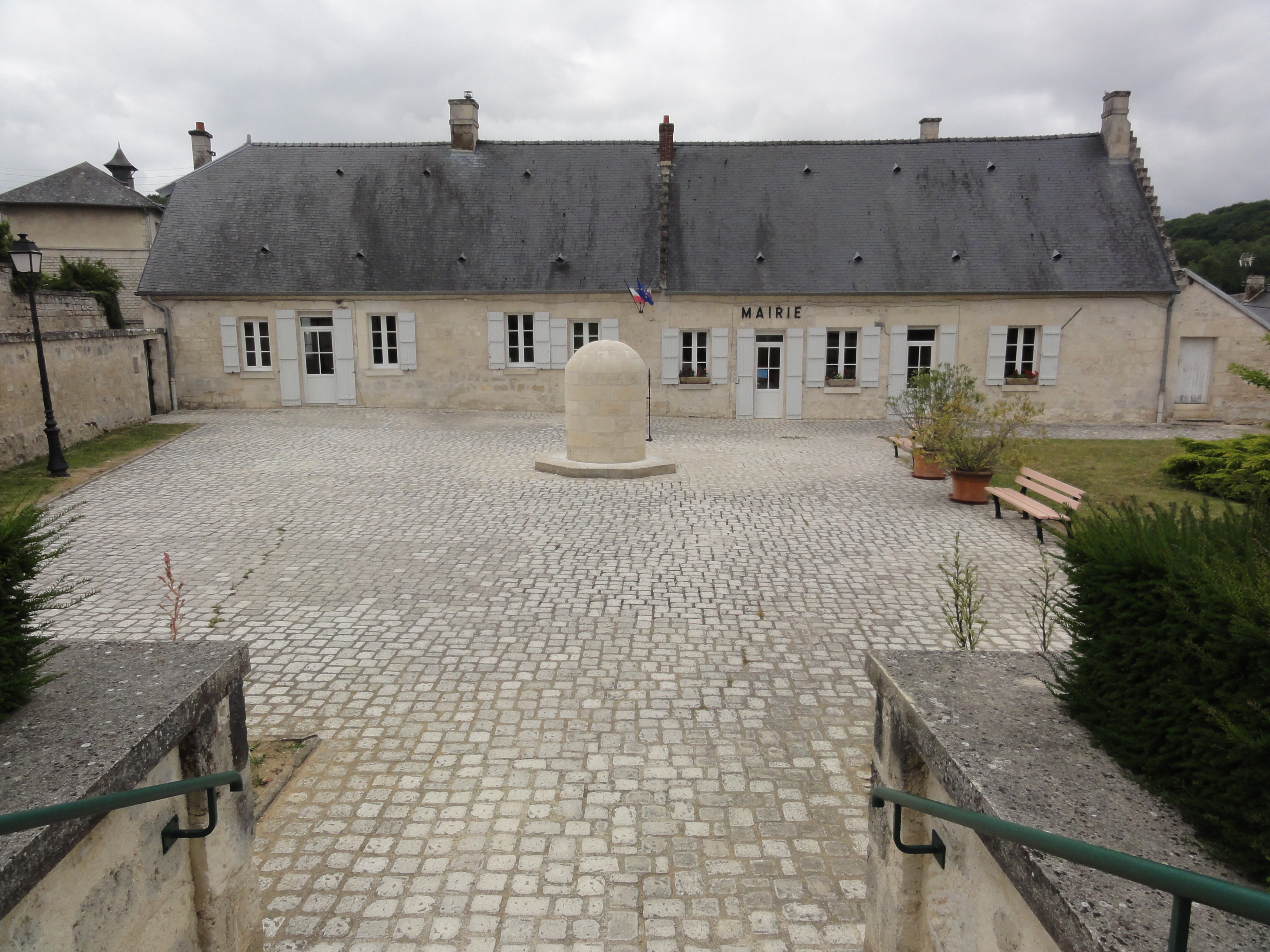 Billy-sur-Aisne (Aisne) mairie